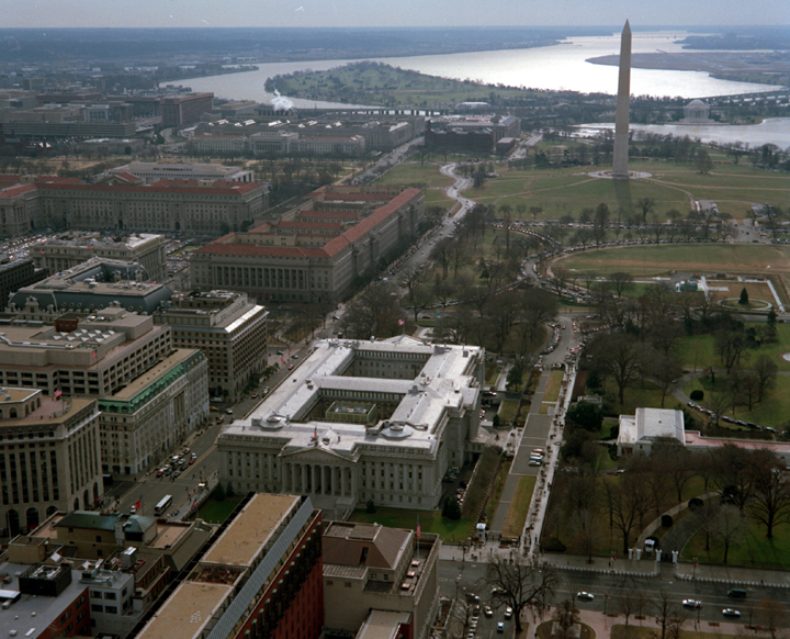 Commerce Building aerial view from the north. White House East Wing can be seen on the right, the Ellipse of President's park and the Washington Monument background